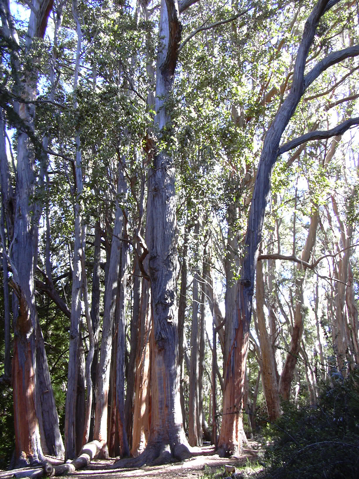 Eucalyptus obliqua (stringy bark). Location: Maui, Hosmers Grove